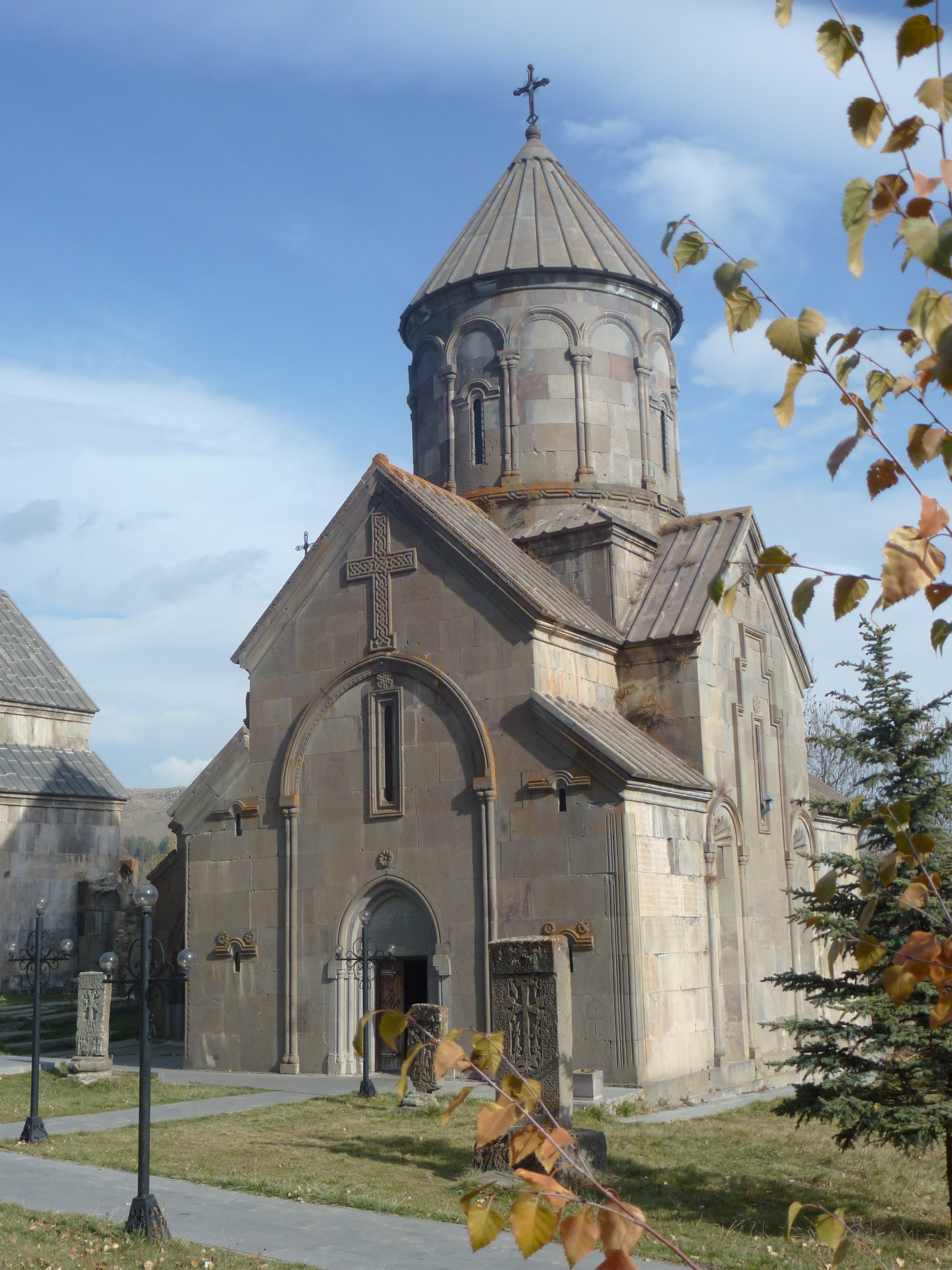 Kecharis monastire